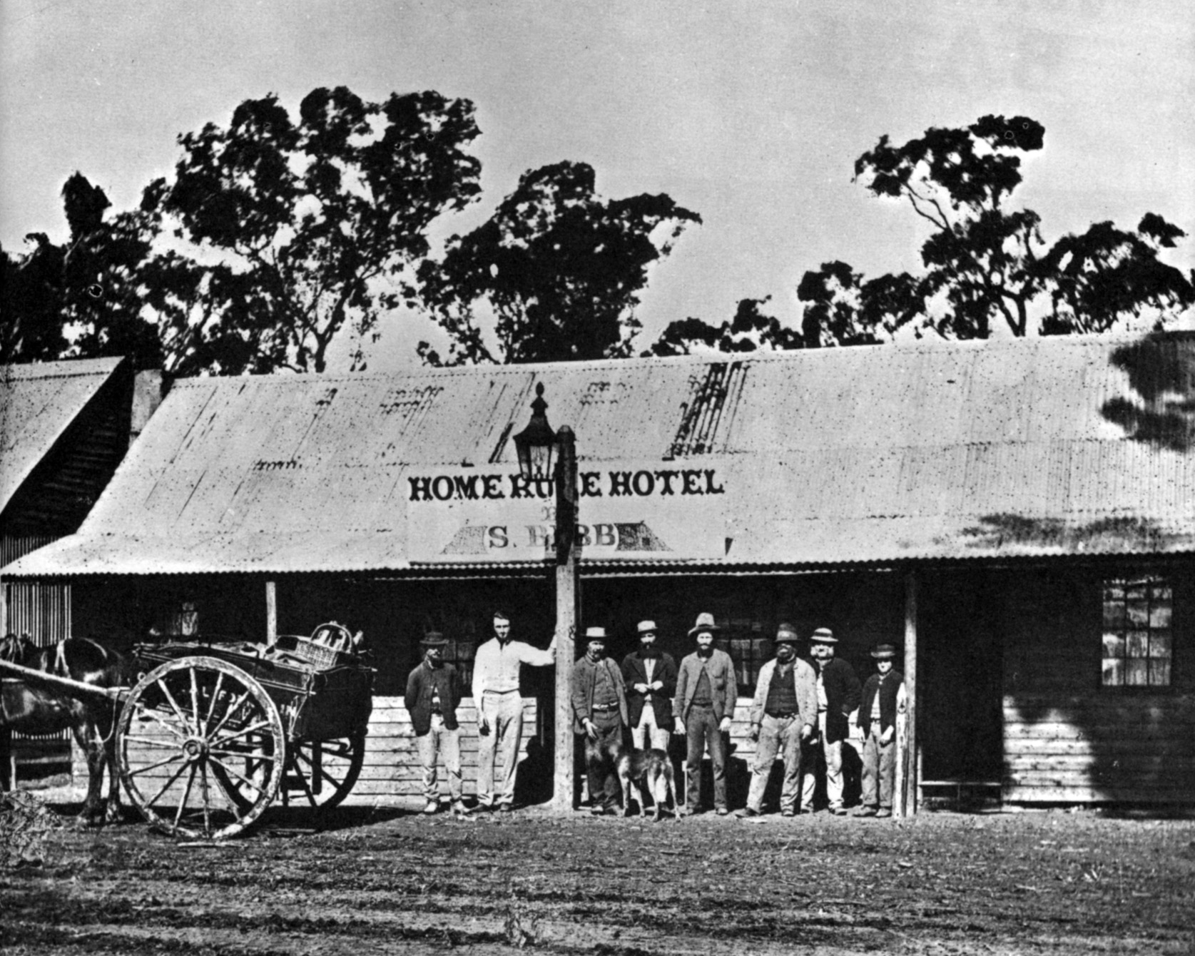 Photograph of Home Rule Hotel, New South Wales. Part of the Holtermann Collection.